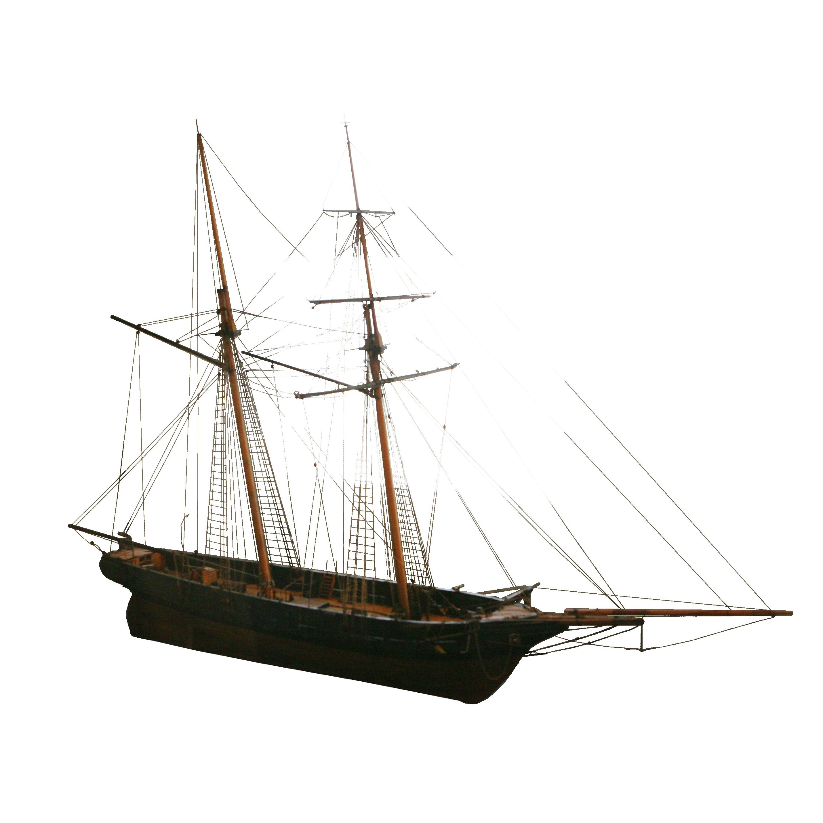 1/40th scale model of the French schooner Toulonaise (1823-1843). 8 18-pounder carronades On display at Toulon naval museum. Access number 21 MG 45.